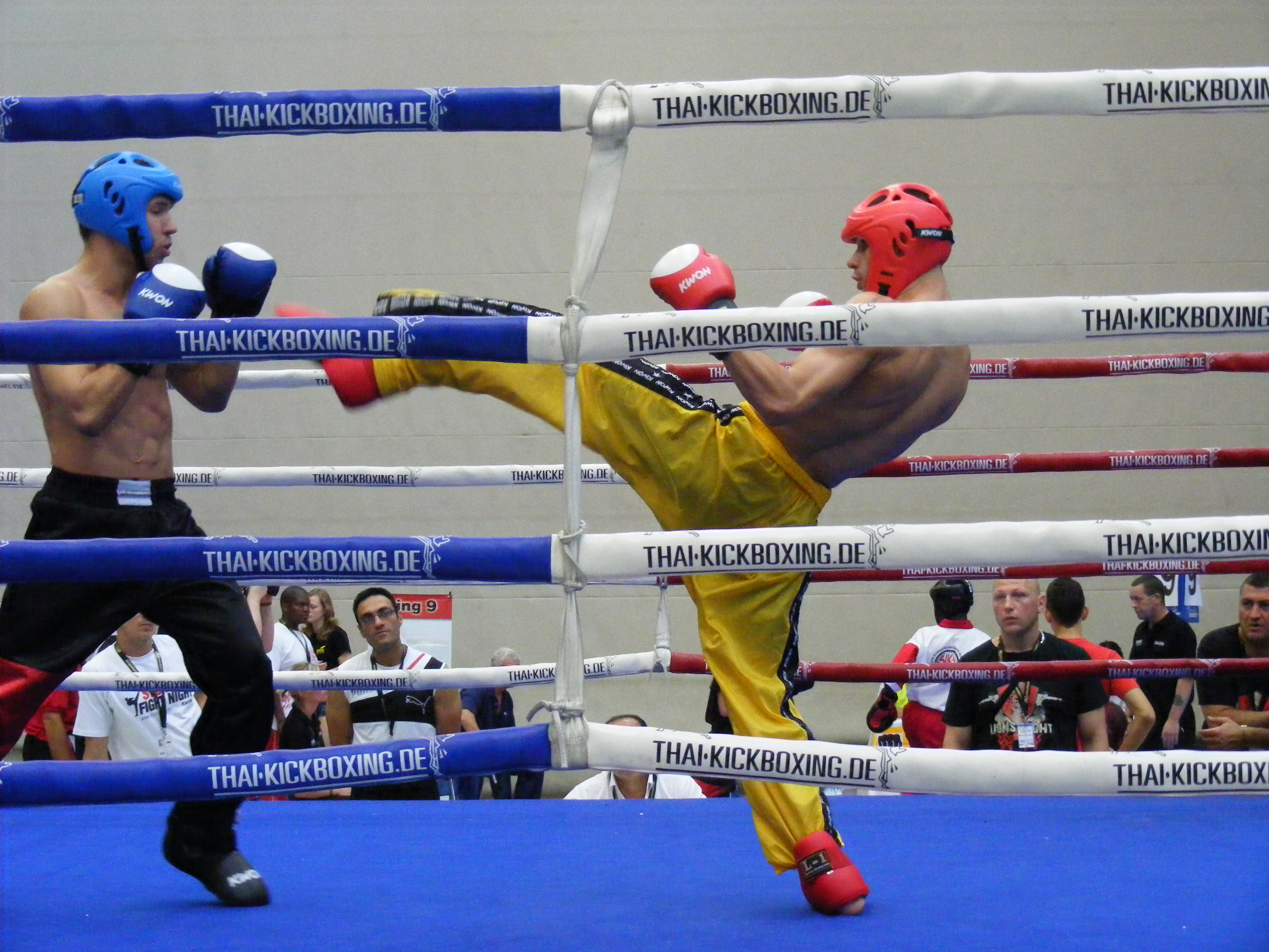 WKA World Championship in Karlsruhe Germany 2011